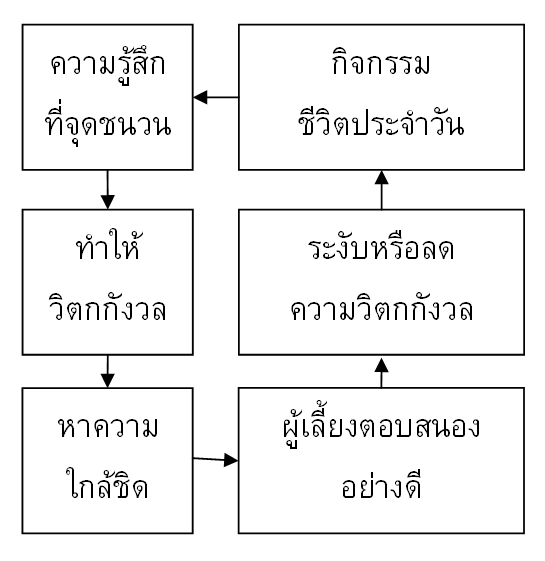 Attachment theory - secure attachment